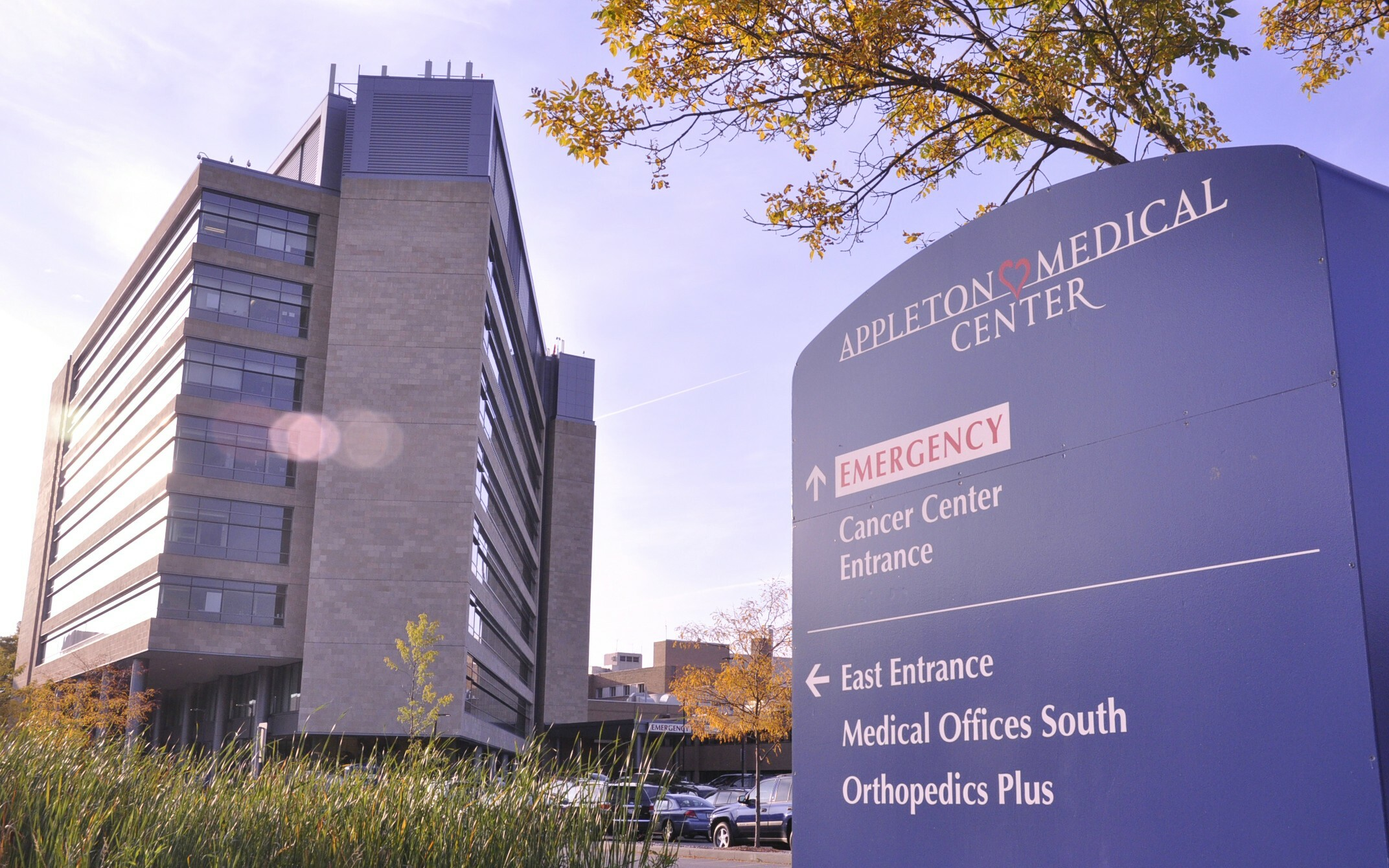 Photo of the Appleton Medical Center